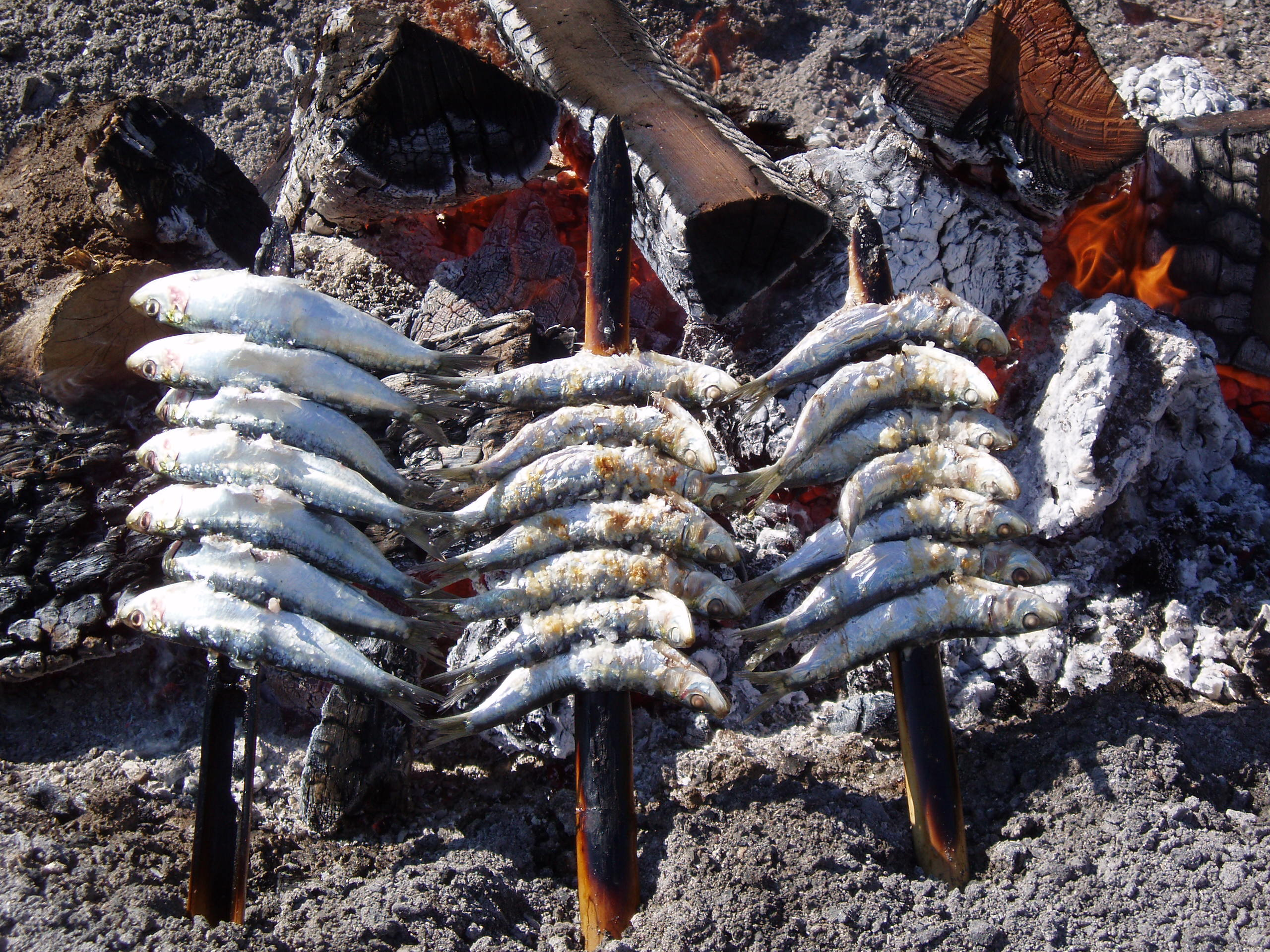 Sardines grilled on the beach of Torre del Mar in Andalucía, (España)